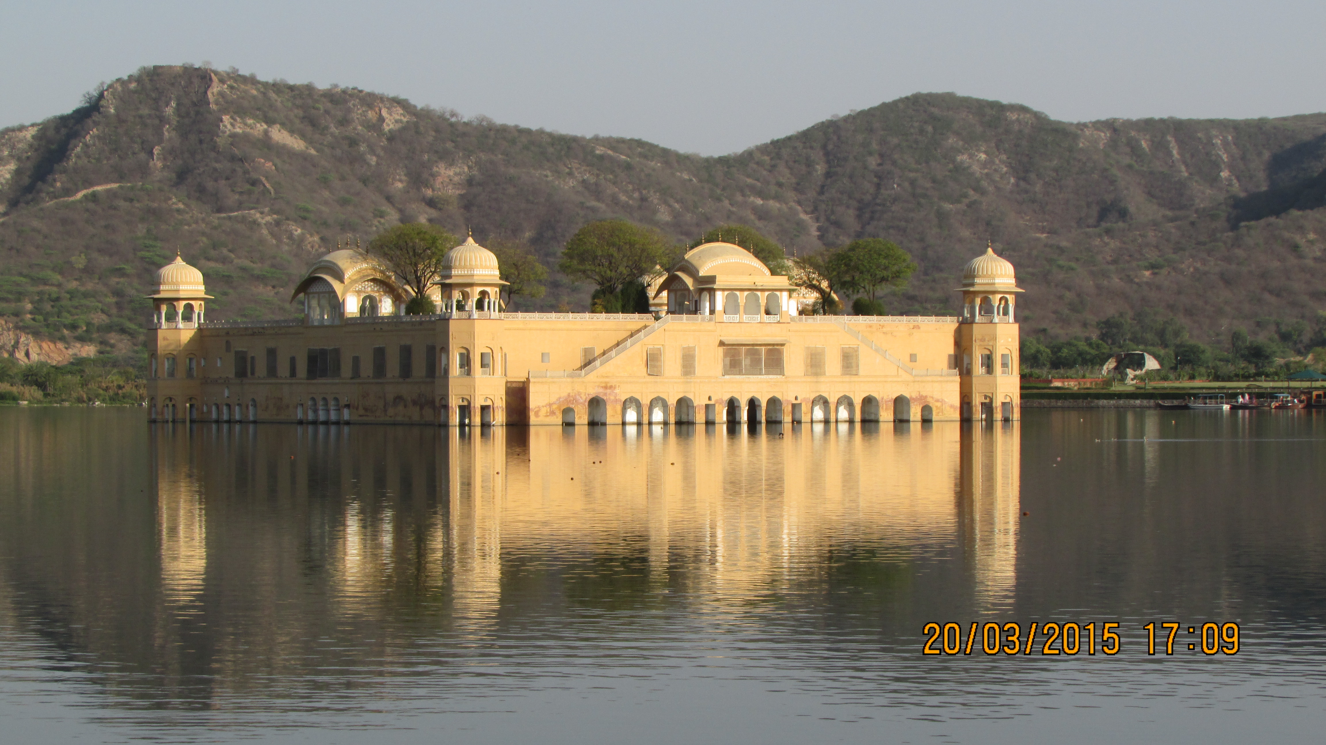 Jalmahal jaipur perspective view in evening of march in India